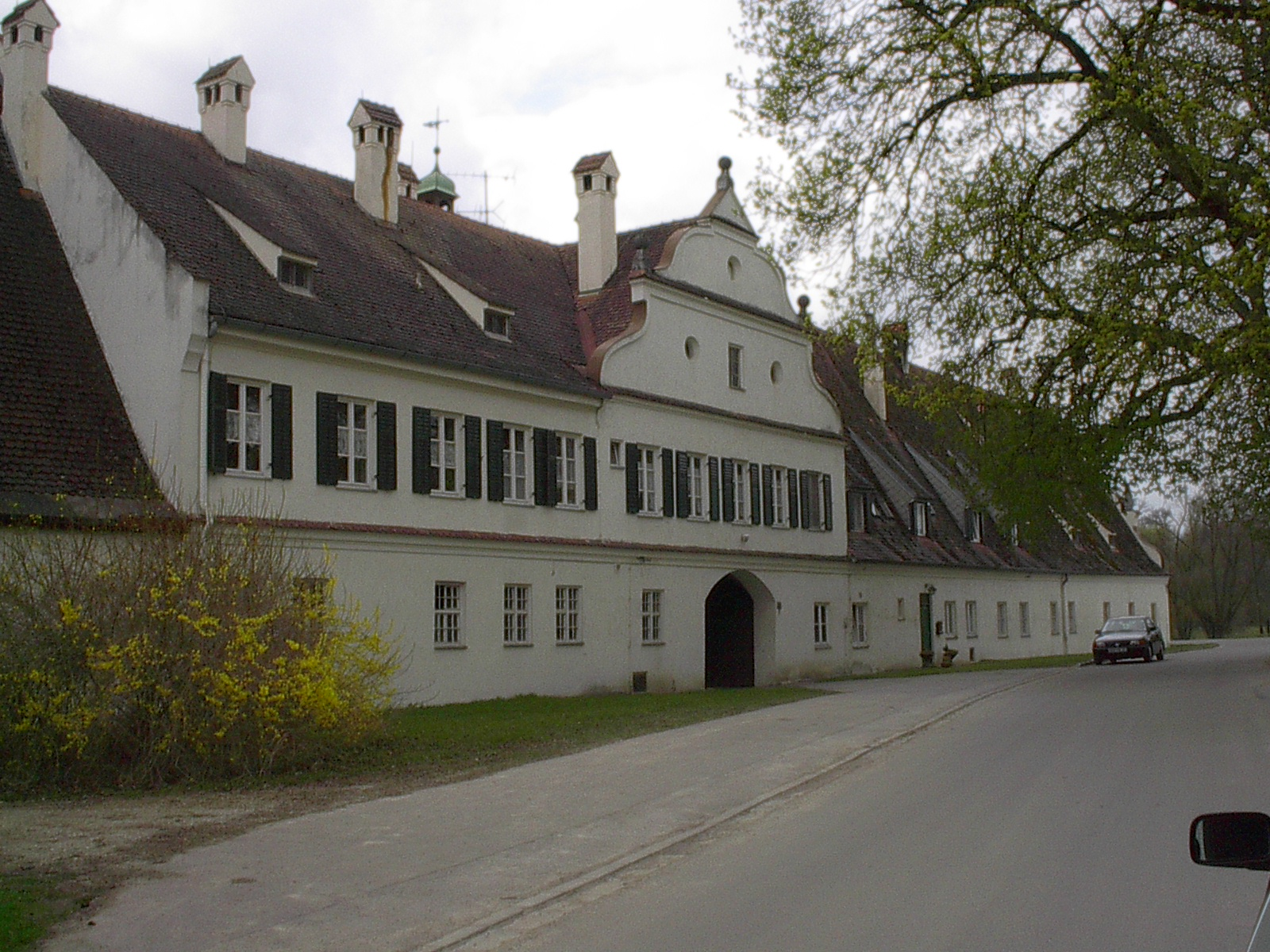 Das Gestütsgebäude Rohrenfeld